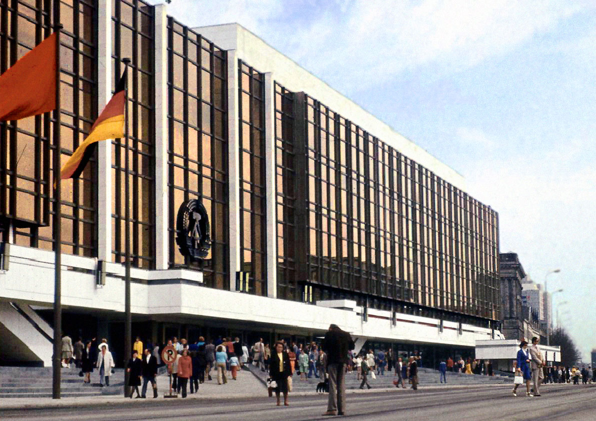 The Palace of the Republik in Eastberlin in Eastgermany in the 1980s.